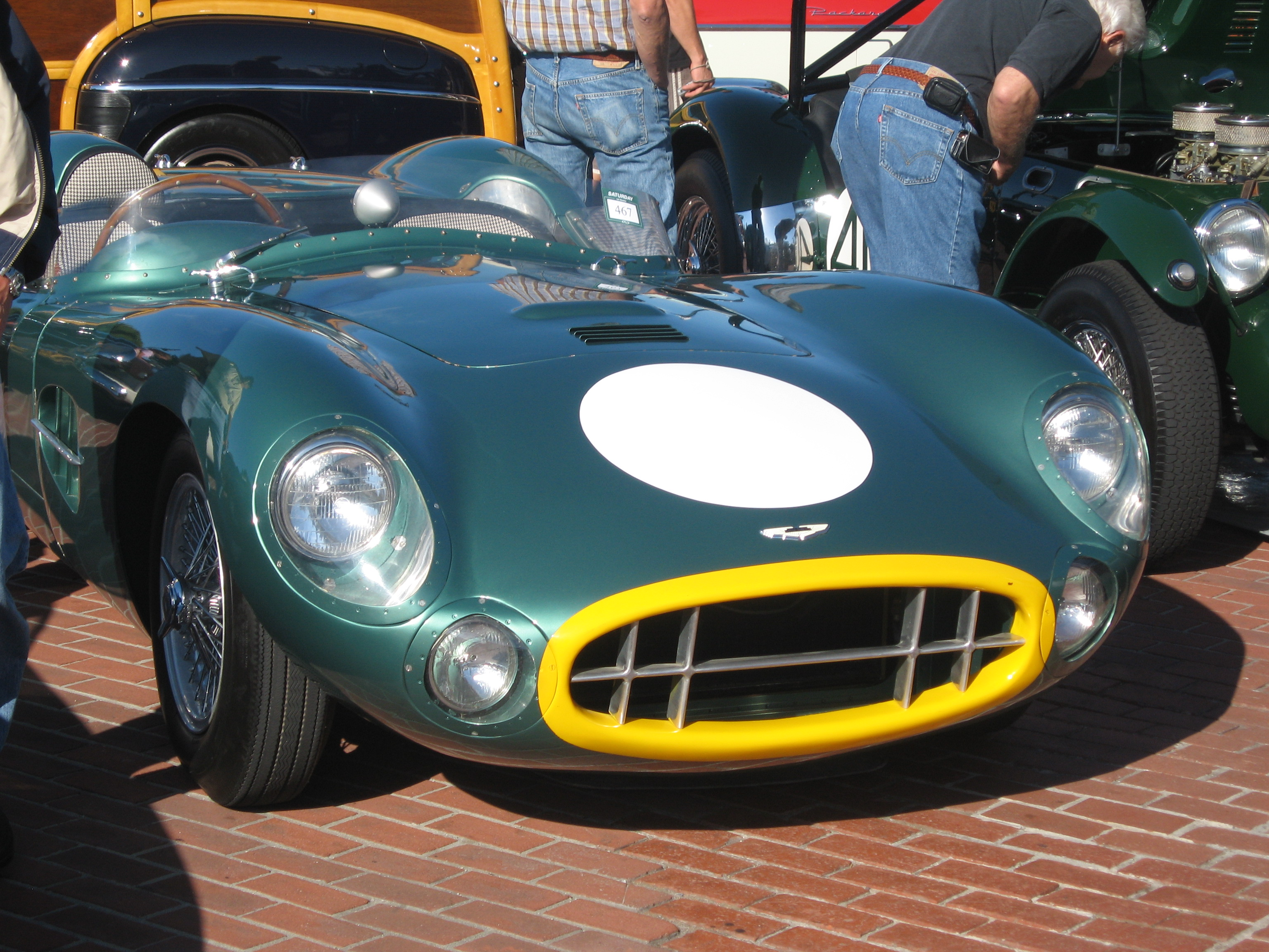 Aston Martin DBR1 replica chassis DB6/2757/L (it is based on a LHD Aston Martin DB6). It sold for USD 275,000 at RM Auctions in Monterey, CA on 18–19 August 2006.[1]